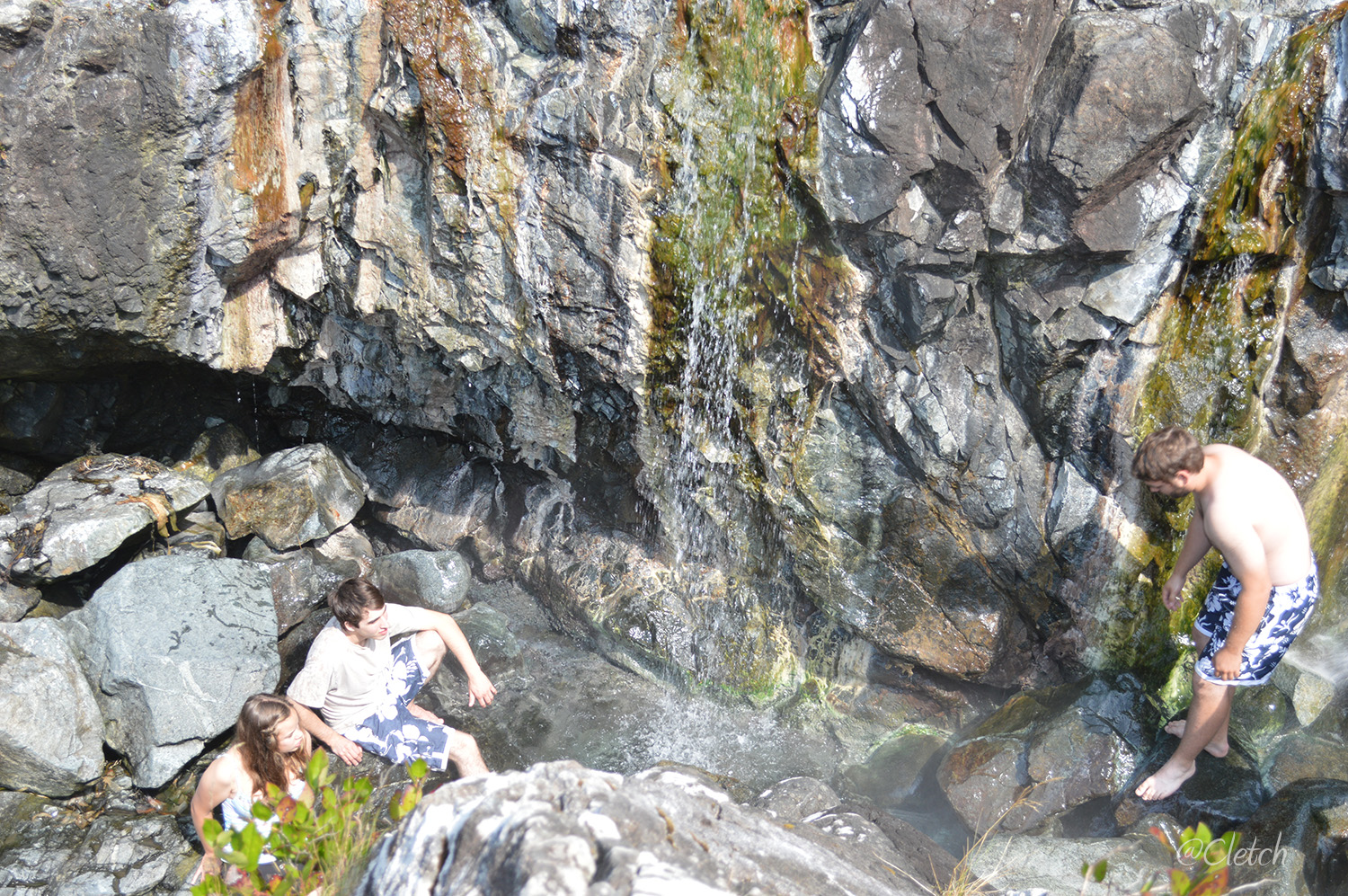 Hotsprings at Maquinna Marine Provincial Park